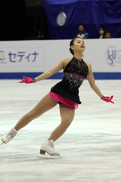 Photos – Junior World Championships 2017 – Ladies